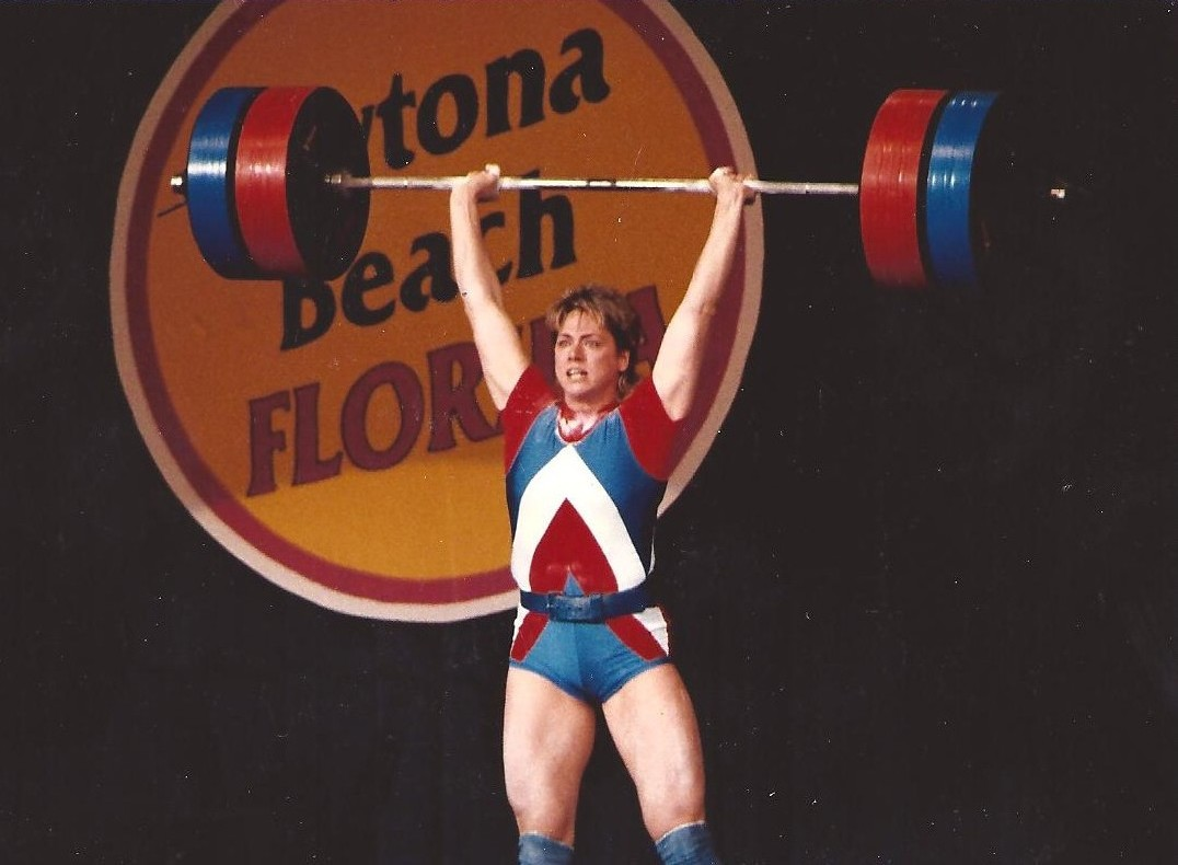 Champion American woman weightlifter Karyn Marshall lifts barbells at the 1987 world championship contest in Daytona Beach, Florida.